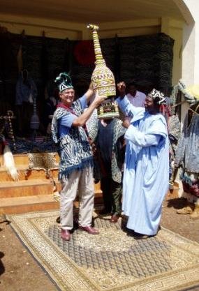 The Chief of Bana, West Province, Cameroon, presents a gift to U.S. Ambassador Niels Marquardt, November, 2006.